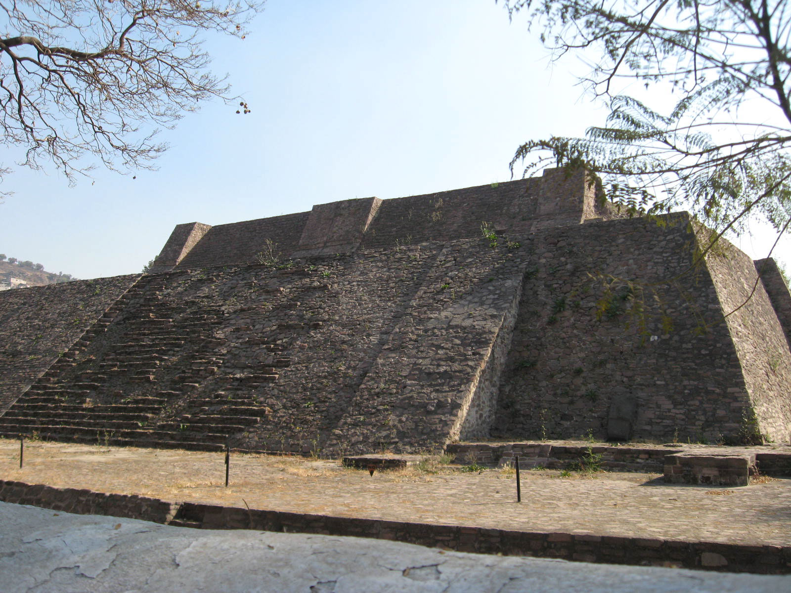 Close up of dual staircase of the Tenayuca pyramid in Tlalnepantla Mexico